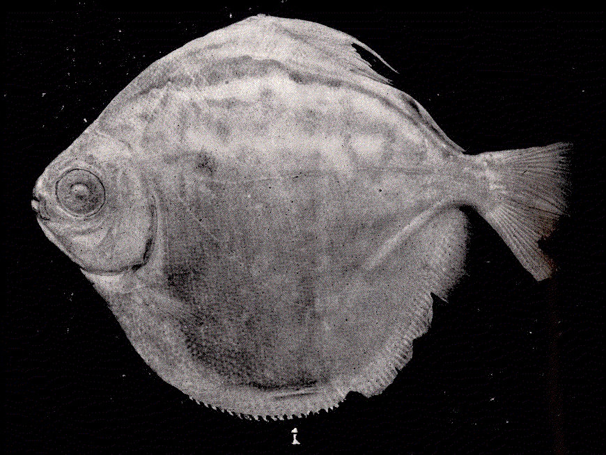 Metynnis mola (Eigenmann and Kennedy) Subject: Characidae Tag: Fish